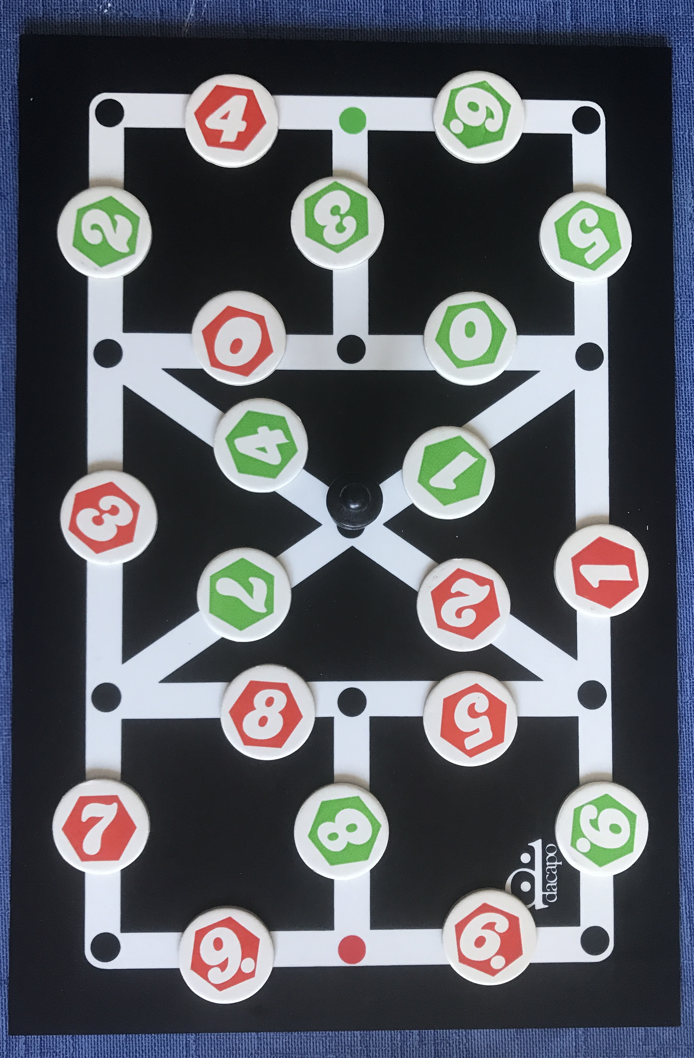 Mister Zero, boardgame